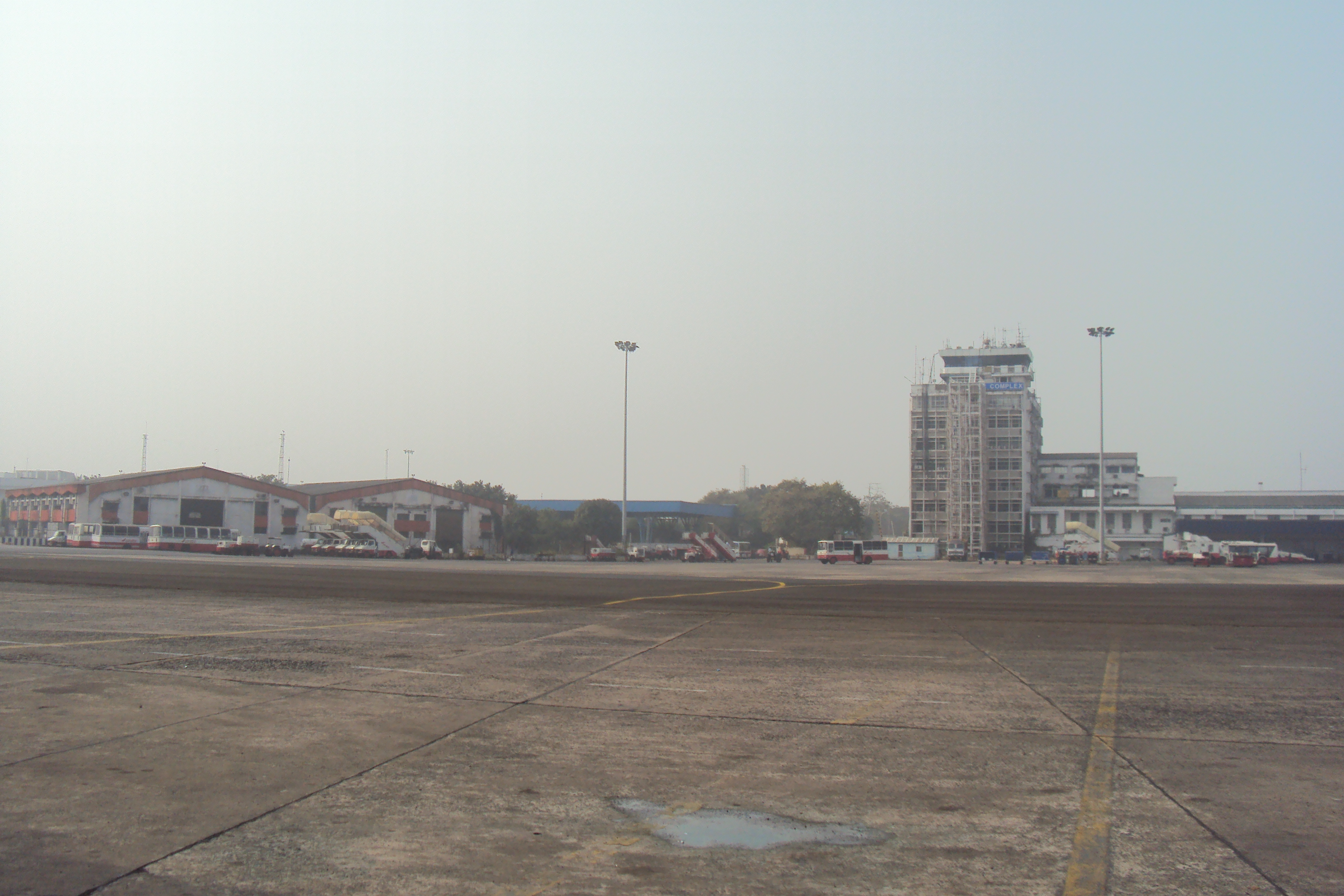 ATC complexx of NSCBIA kolkata